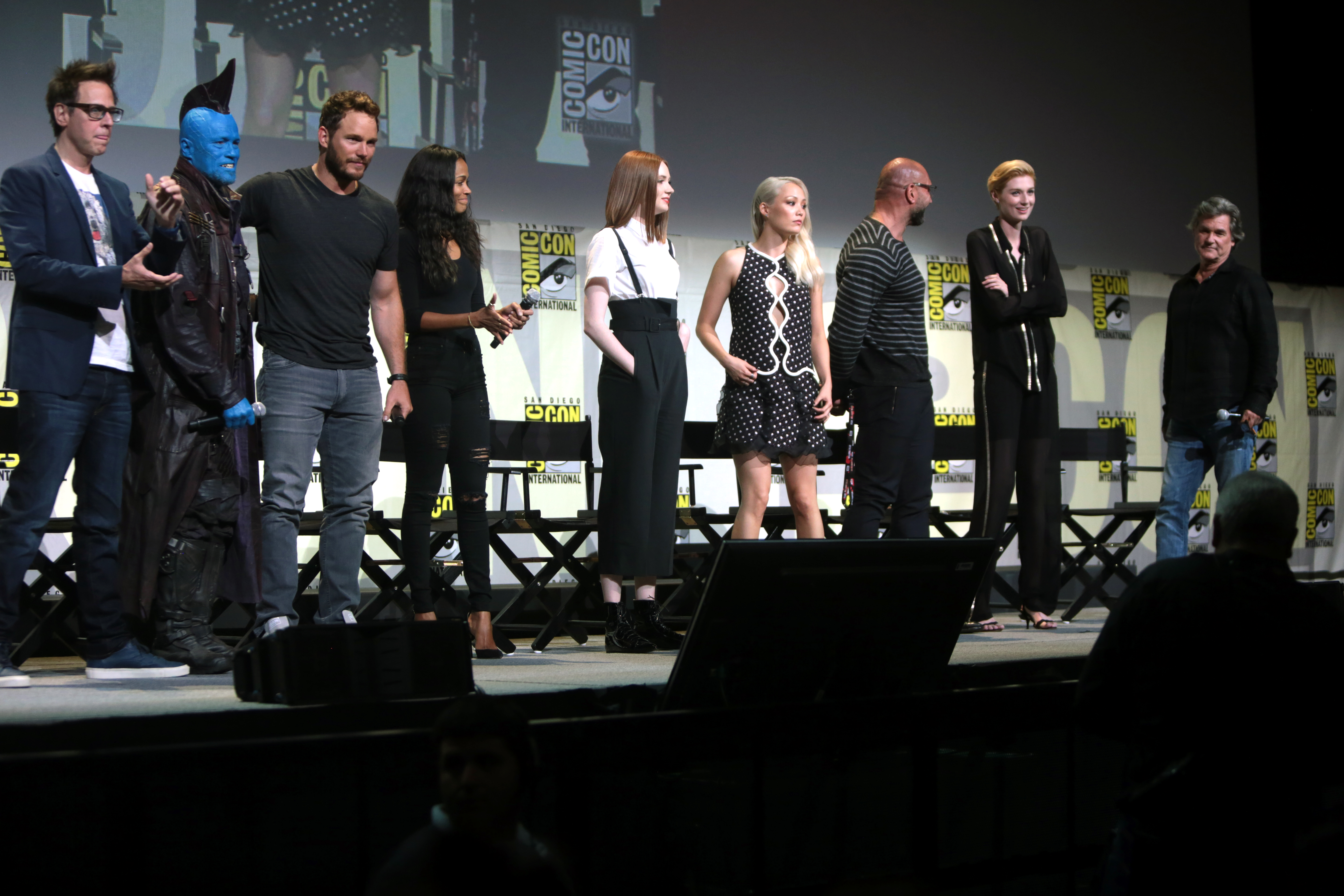 James Gunn, Michael Rooker, Chris Pratt, Zoe Saldana, Karen Gillan, Pom Klementieff, Dave Bautista, Elizabeth Debicki and Kurt Russell speaking at the 2016 San Diego Comic Con International, for "Guardians of the Galaxy Vol. 2", at the San Diego Convention Center in San Diego, California.